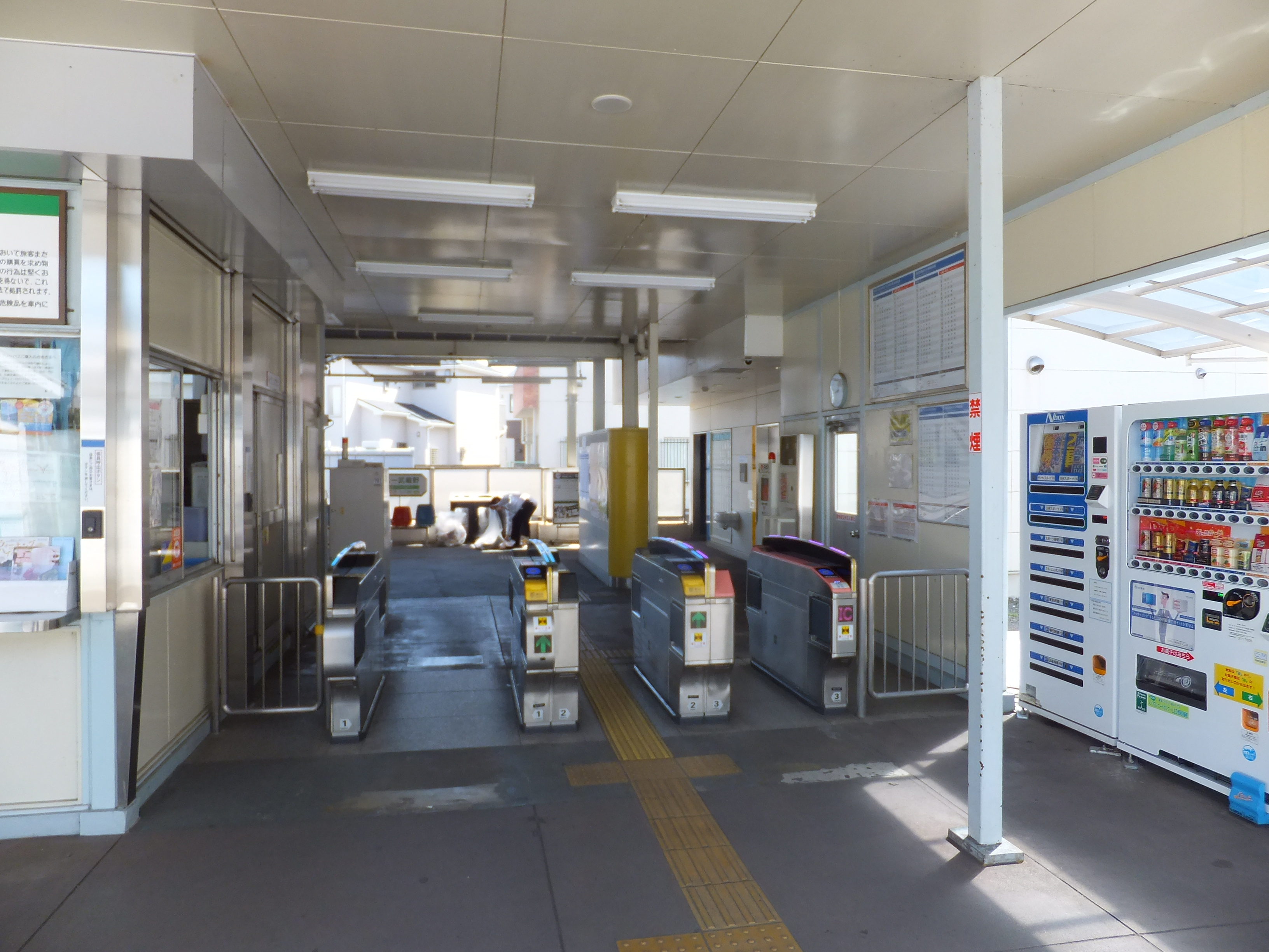 Shimo-Yamaguchi Station on the Seibu Sayama Line, in Tokorozawa, Saitama, Japan